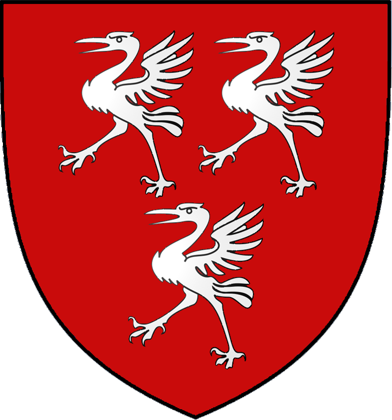 Shield of arms of The Lord Cranstoun